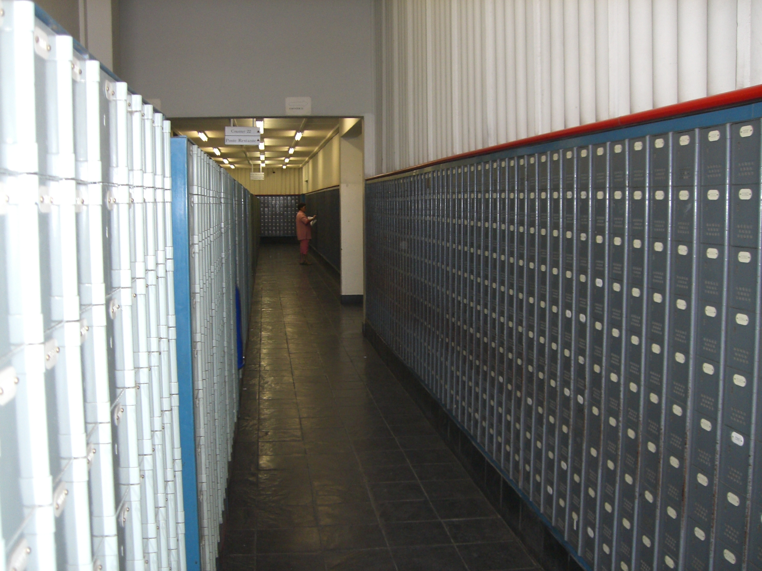 PO Boxes at Namibia Post Limited, central branch